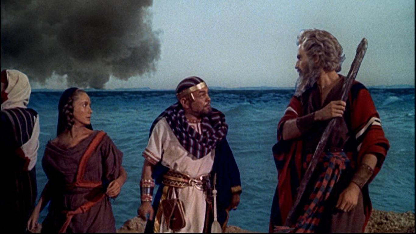 L. to R. : Olive Deering, Edward G. Robinson & Charlton Heston in The Ten Commandments - trailer (cropped screenshot)